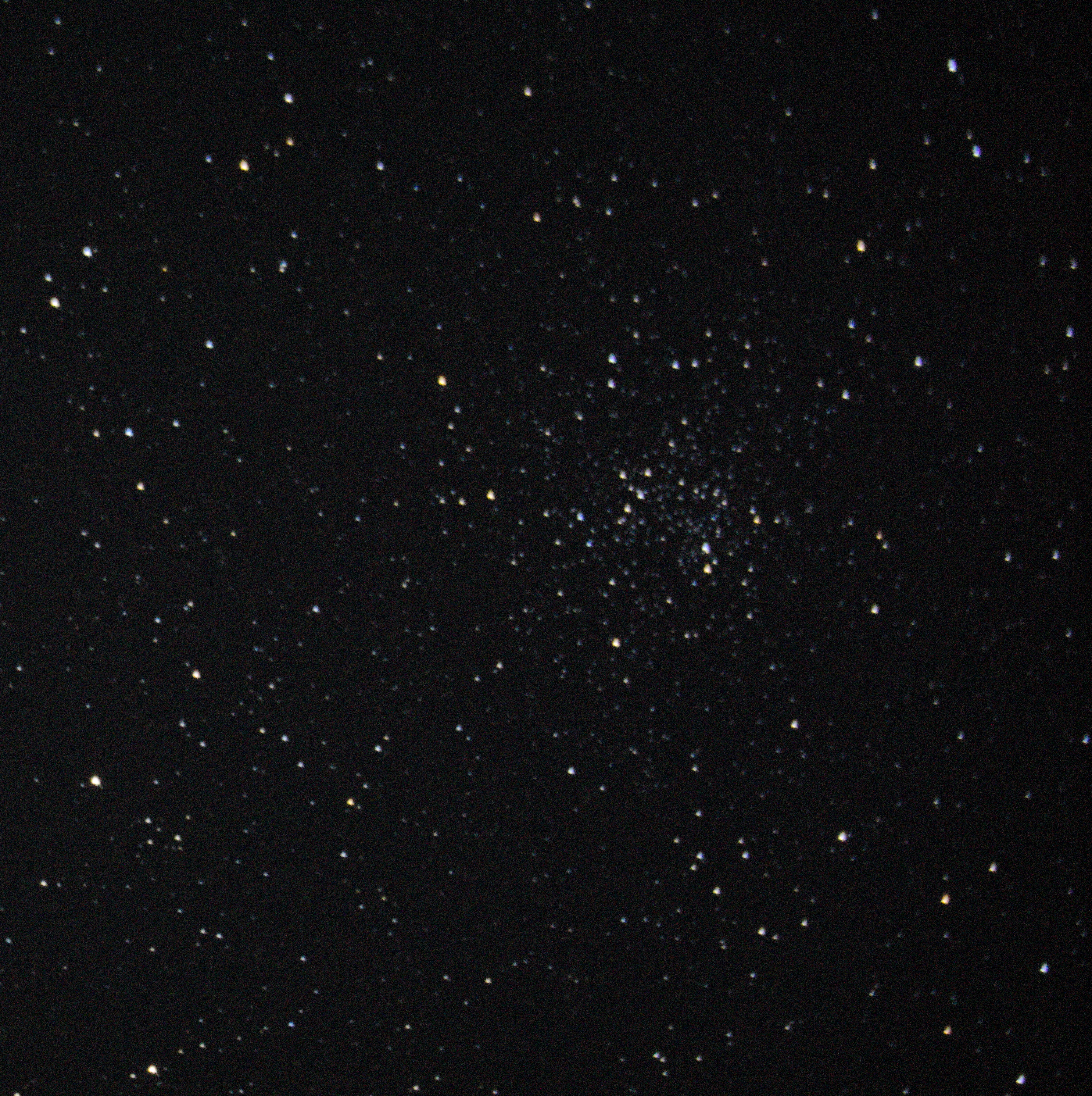 Open cluster NGC 2506, photographed through a Celestron C 9 1/4 Schmidt-Cassegrain.